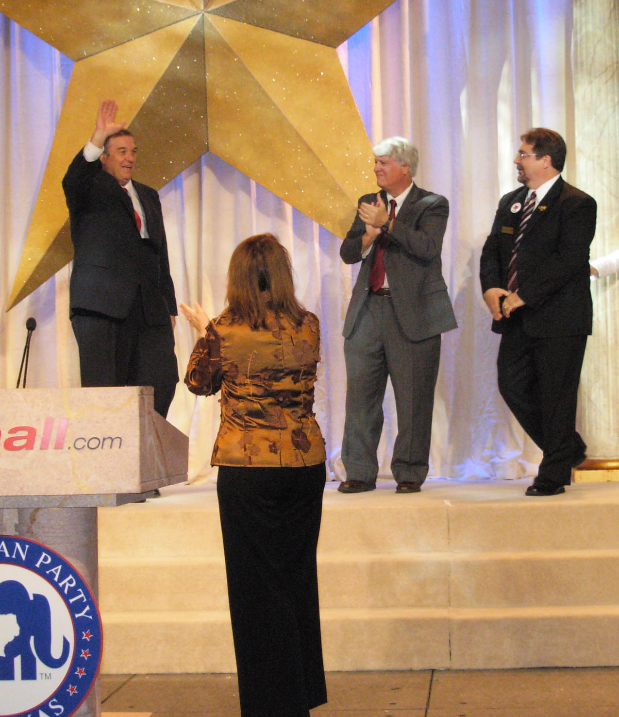 Republican candidates for U.S. president greet the delegates at the Texas Presidential Straw Poll Sept. 1, 2007, at the Fort Worth Convention Center in Fort Worth, Texas. Pictured (left to right) are candidates Rep. Duncan Hunter, Dr. Hugh Cort and Ray McKinney.